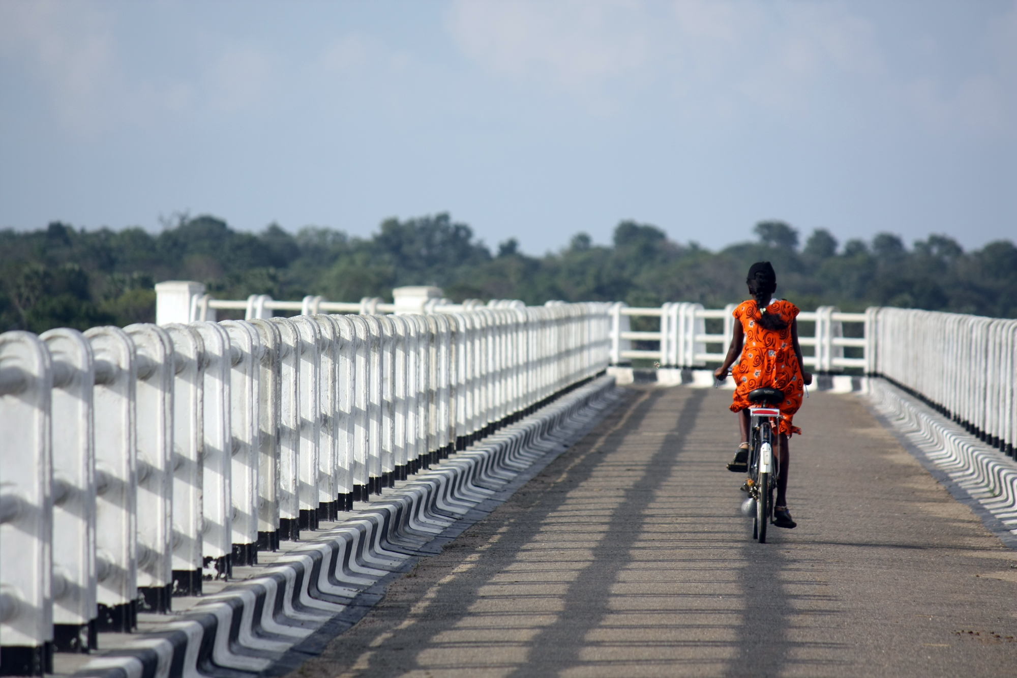 A girl riding bycycle in Batticaloa, Sri Lanka.